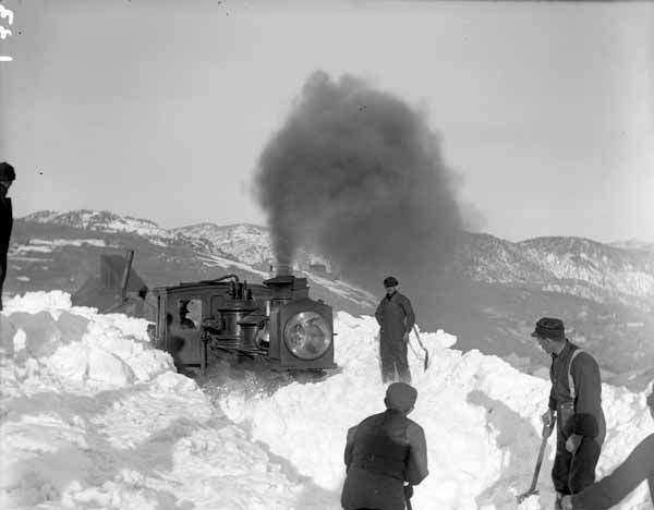 Gilpin Tram